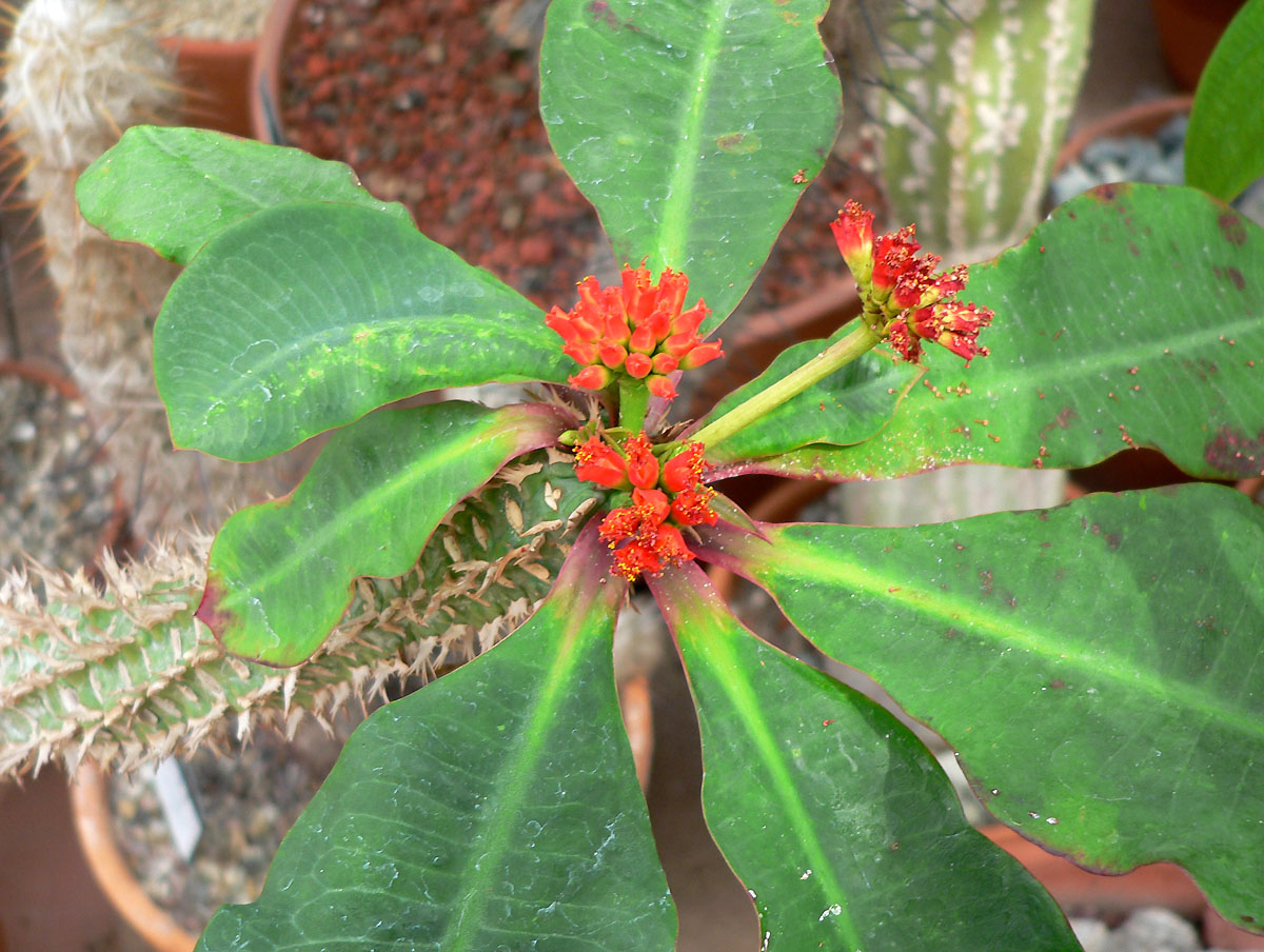 Euphorbia viguieri var. ankarafantsiensis at the University of California Botanical Garden, Berkeley, California